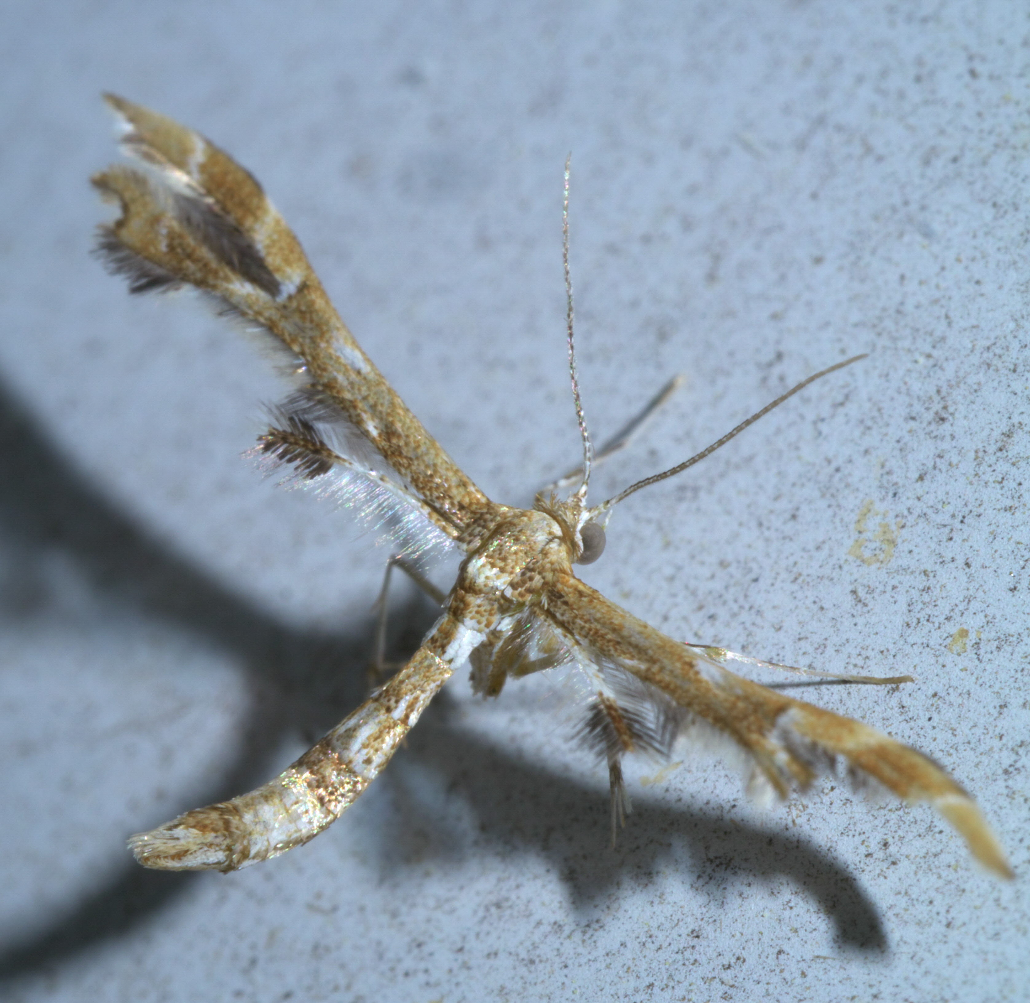 Geina, Family: Plume Moths, Size: around 7 mm